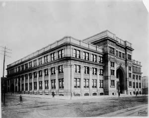 Summary The Main Building of Drexel University, c. 1892.